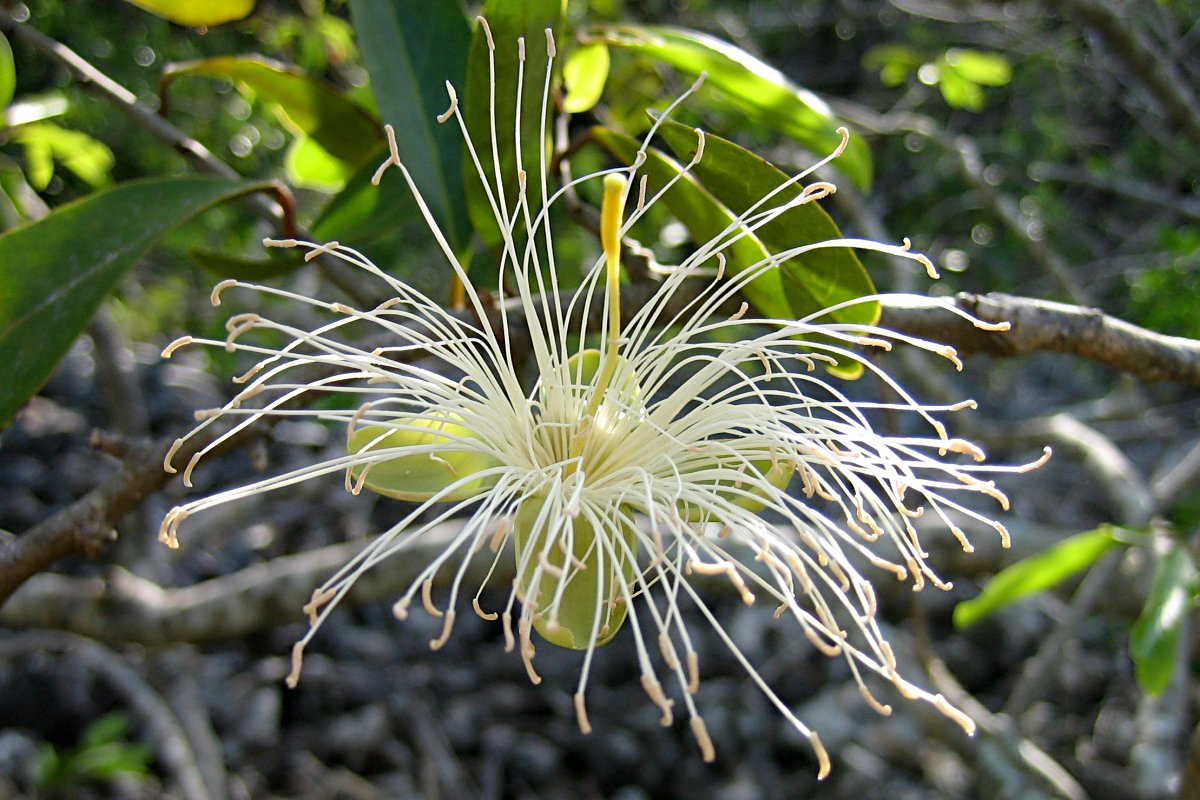 Scientific Name: Capparis flexuosa (L.) L. Common Name: Limber Caper Certainty: positive (notes) Location: Florida Keys; Upper Keys; Dove Creek Hammock Date: 20060120